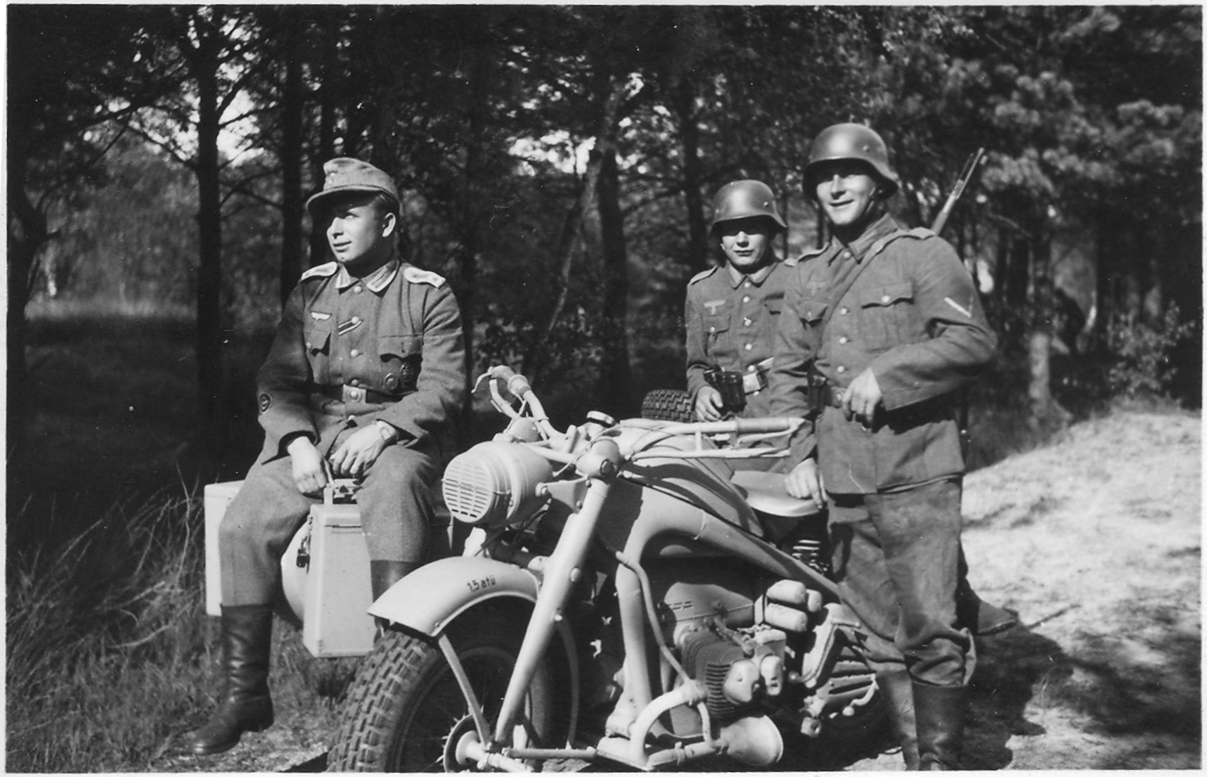 Zündapp KS-750 Wehrmacht motorcycle with sidecar